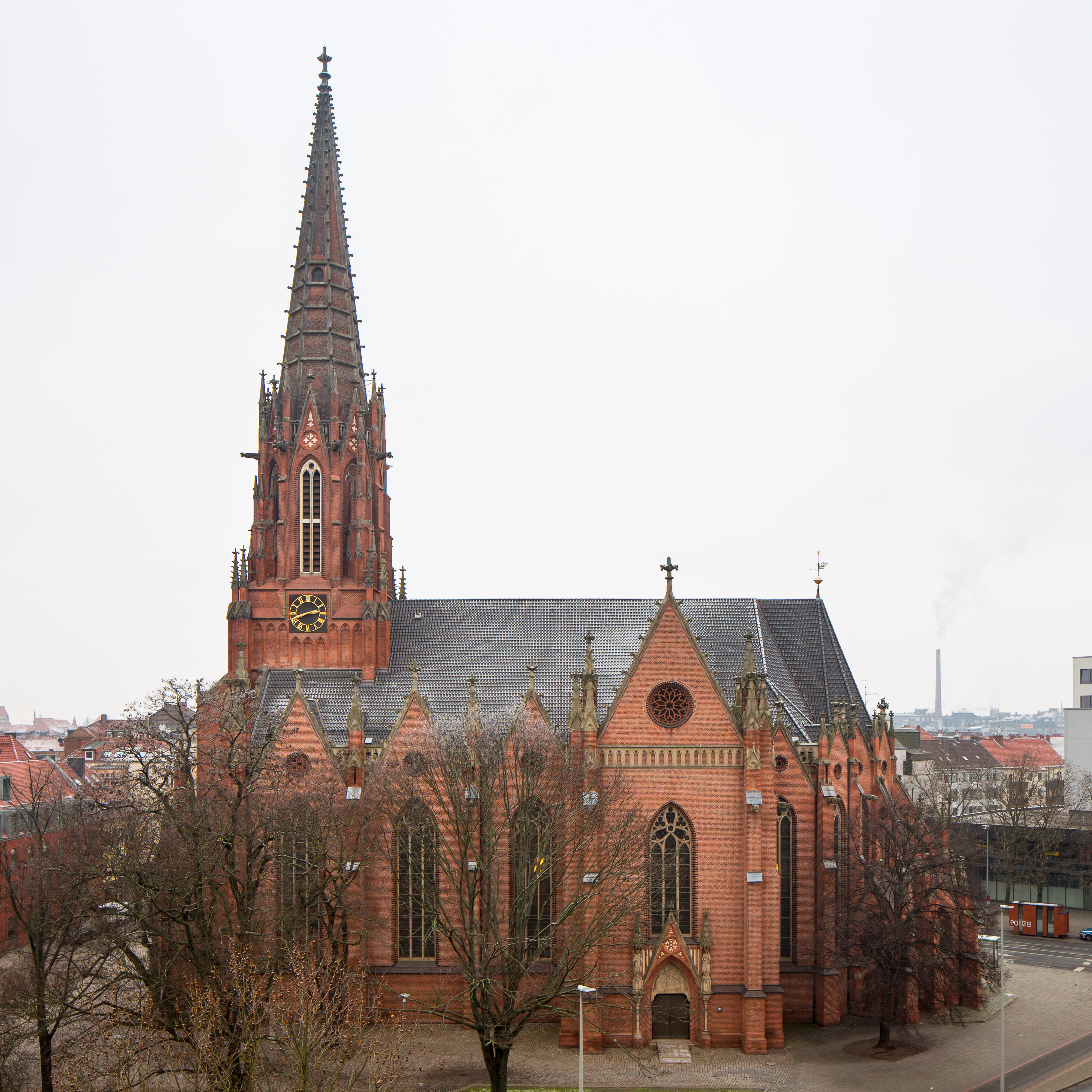 Christuskirche church located at Conrad-Wilhelm-Hase-Platz square in Nordstadt quarter of Hannover, Germany. View of the south side from Schlosswender Strasse.